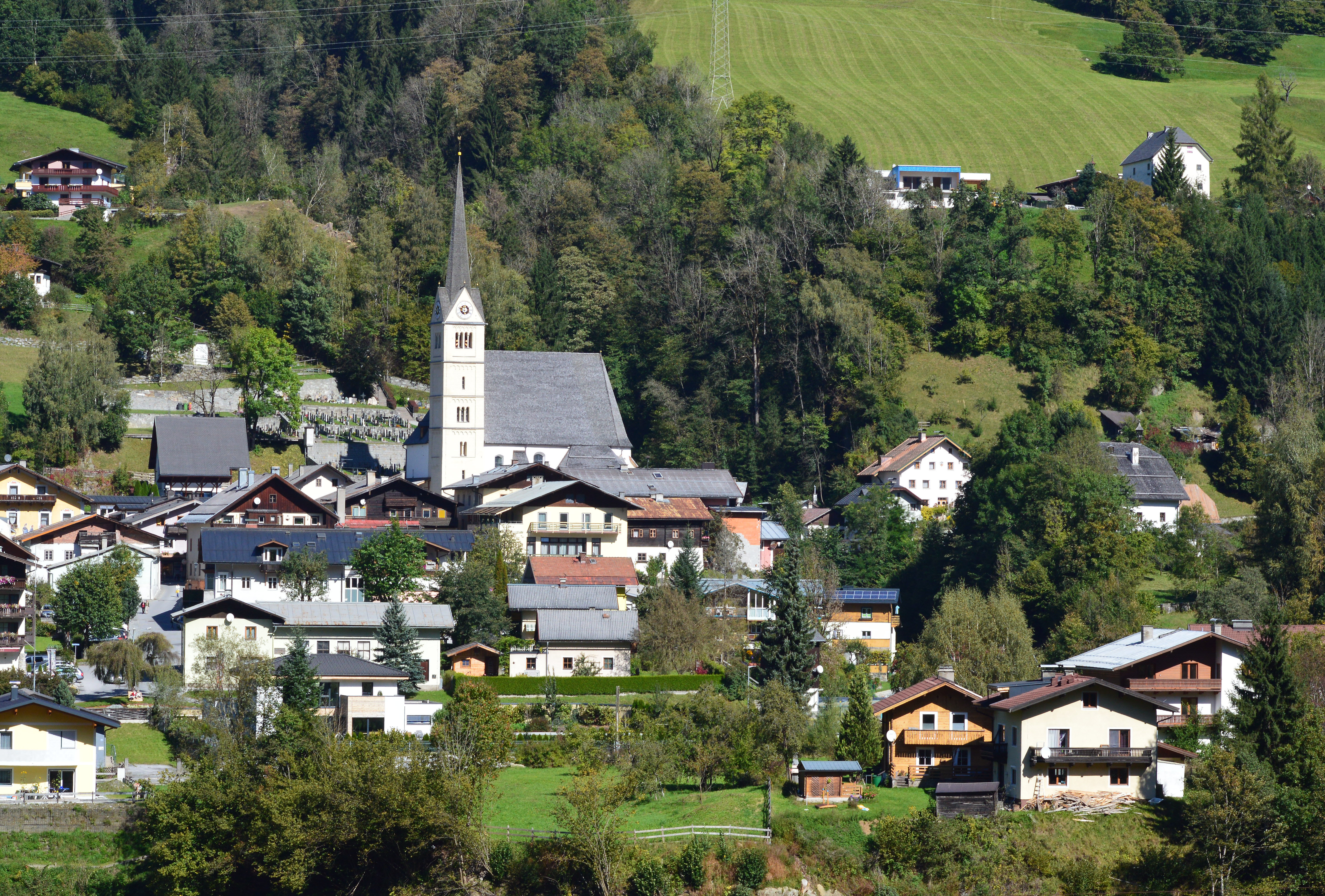 The picture is showing the southside of the village Taxenbach. On the top of the right side is the Penninghof, Gschwandtnerberg, Taxenbach, Salzburg (state), Austria